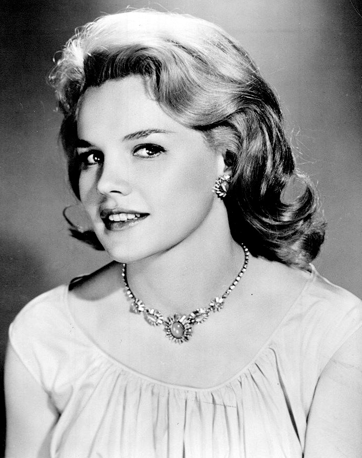 Carroll Baker in a 1967 pictorial